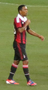 Urby Emanuelson playing for A.C. Milan during World Football Challenge.